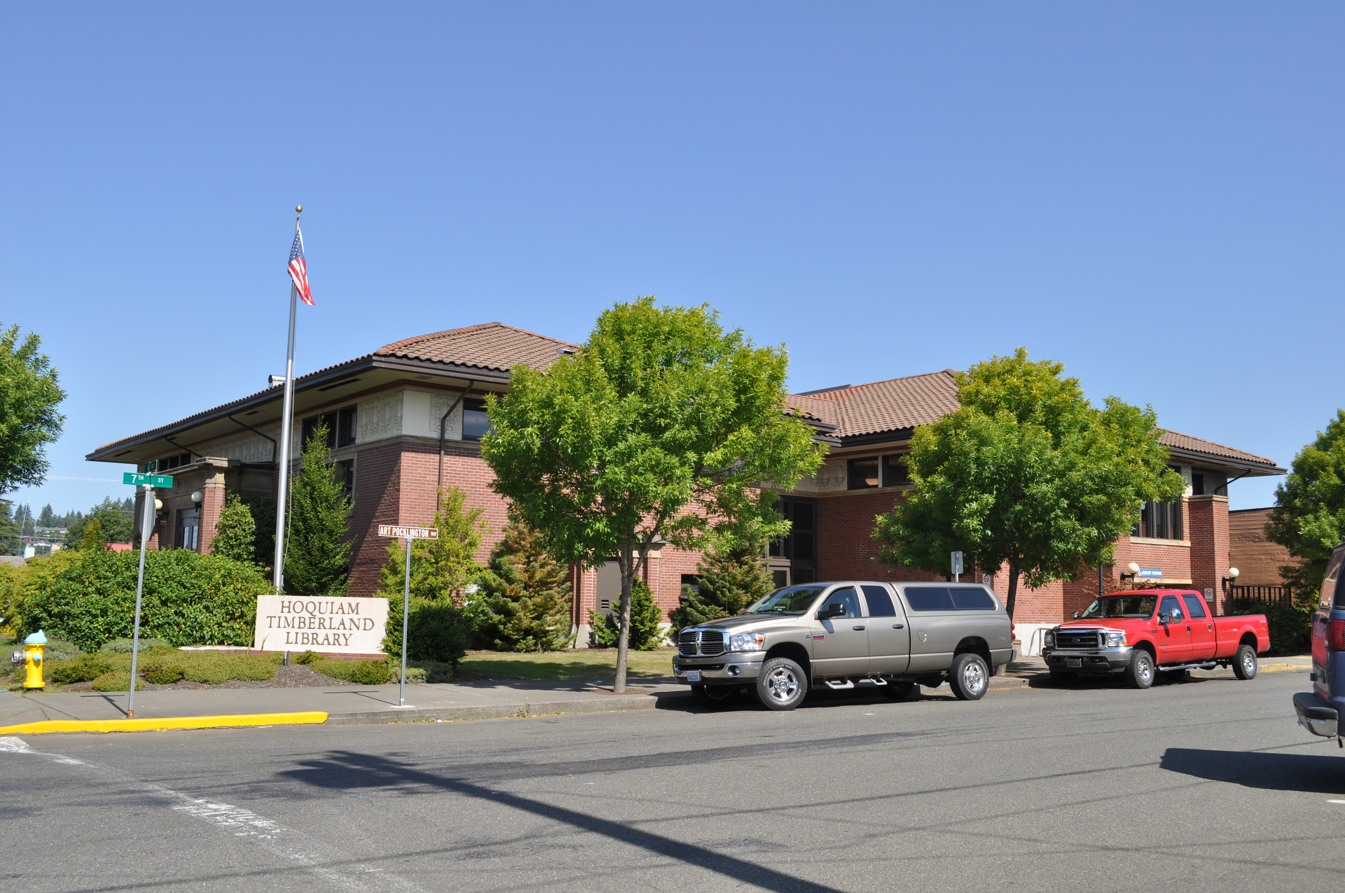 Hoquiam Timberland Library, 420 7th St, Hoquiam, Washington, USA. A Carnegie library, built in 1911, joined Timberland Regional Library in 1969, listed on the National Register of Historic Places 1982, remodeled and expanded in 1989-90.